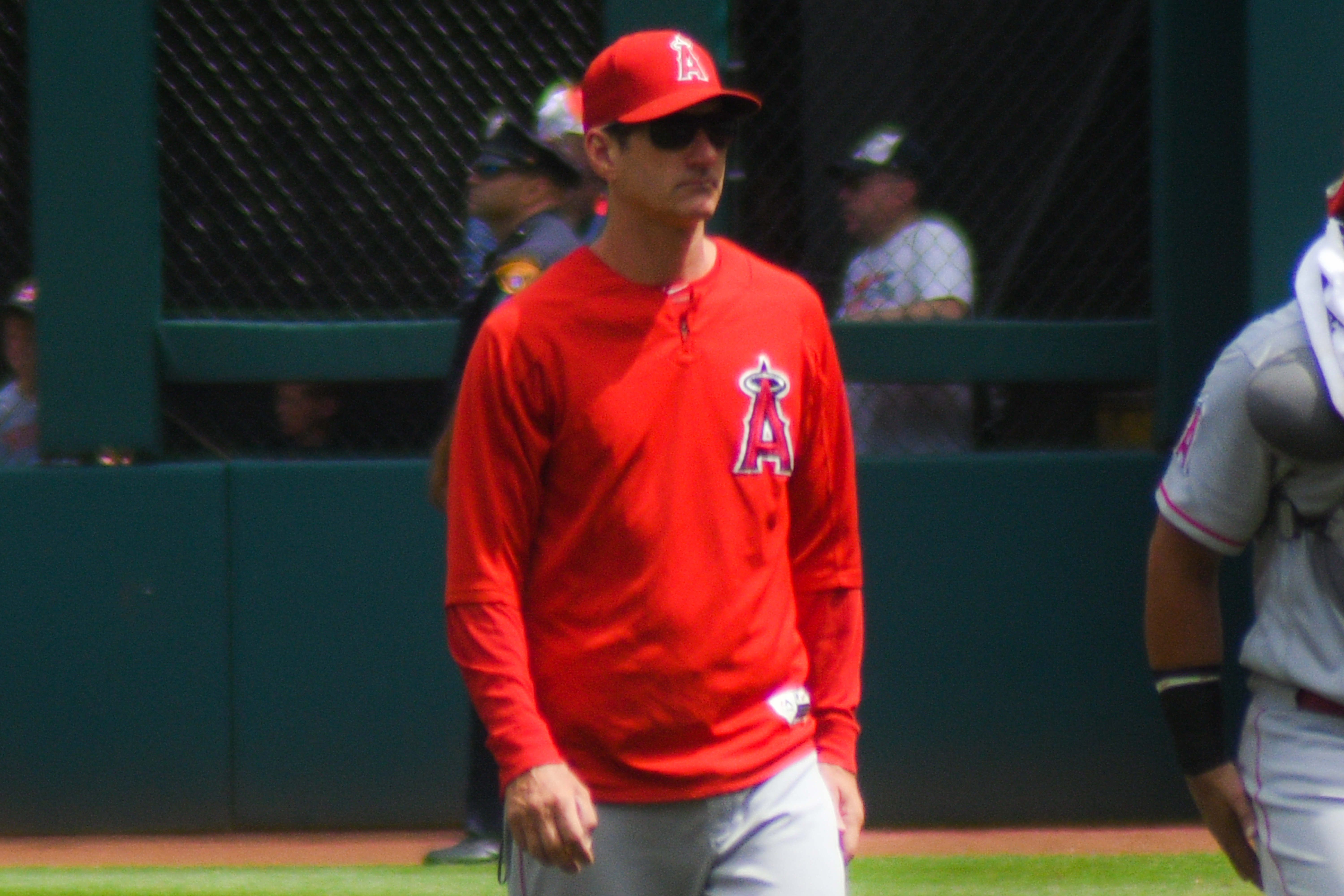 Charles Nagy